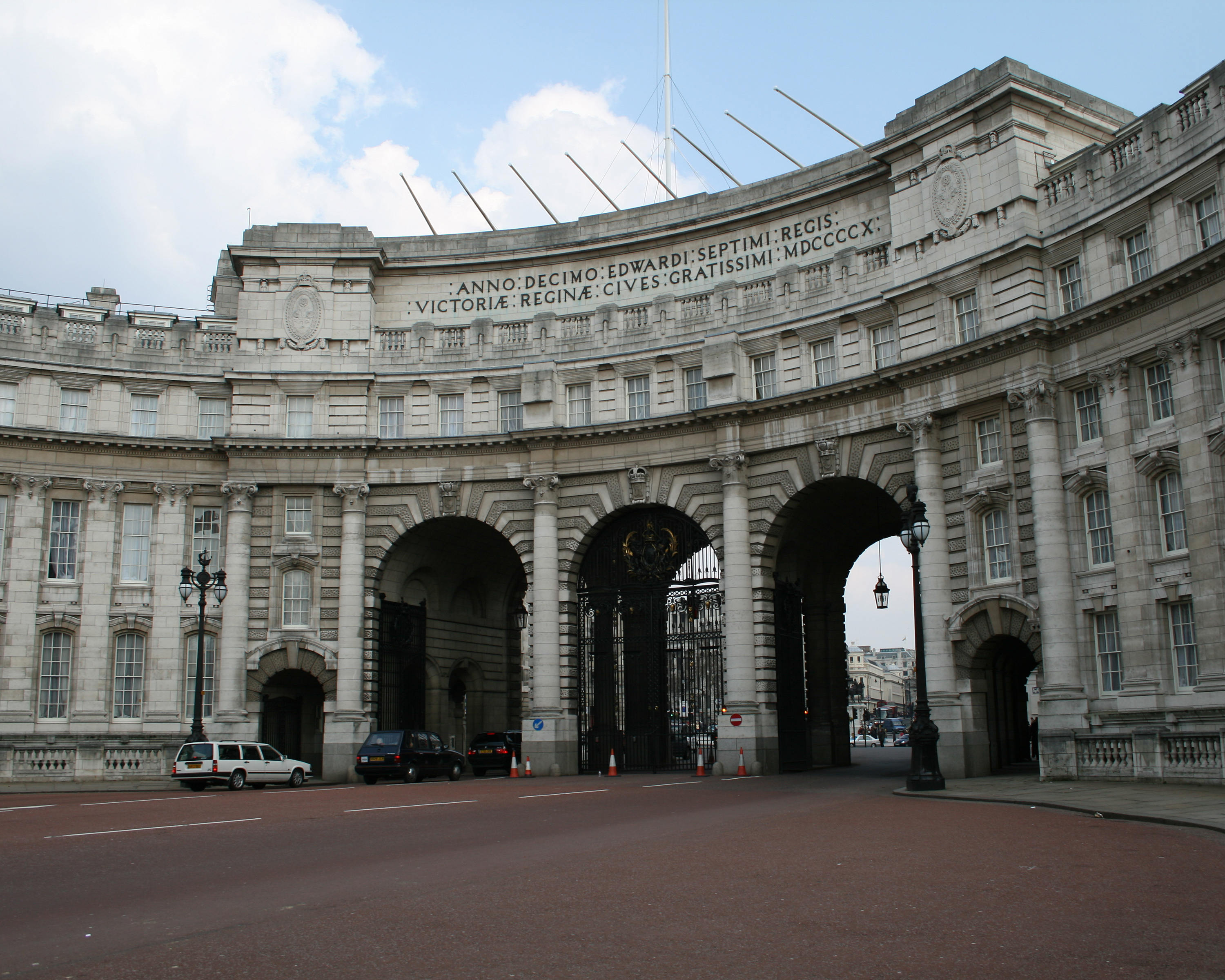 Admiralty Arch in London